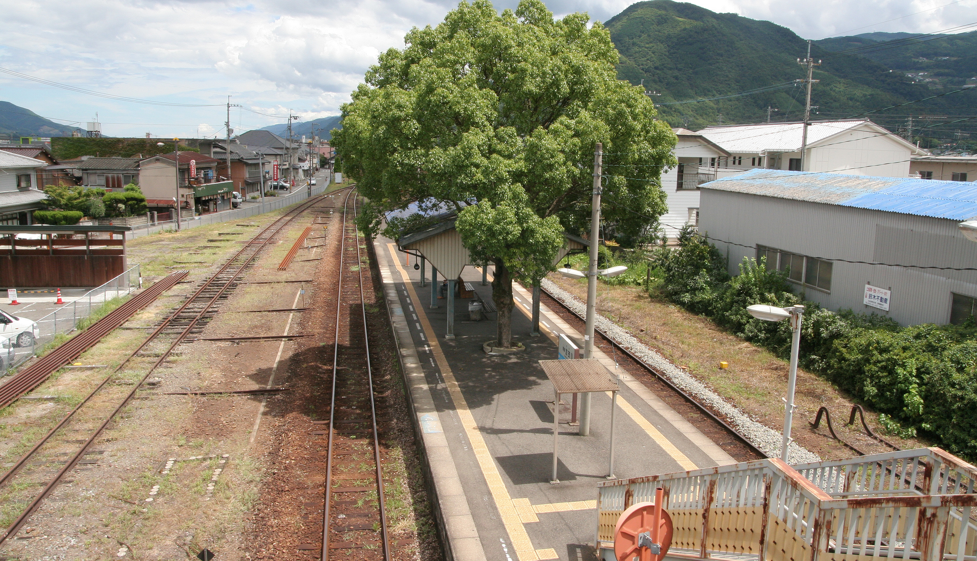 Shikoku Railway Tokushima Line Awa-Kamo Station enclosure